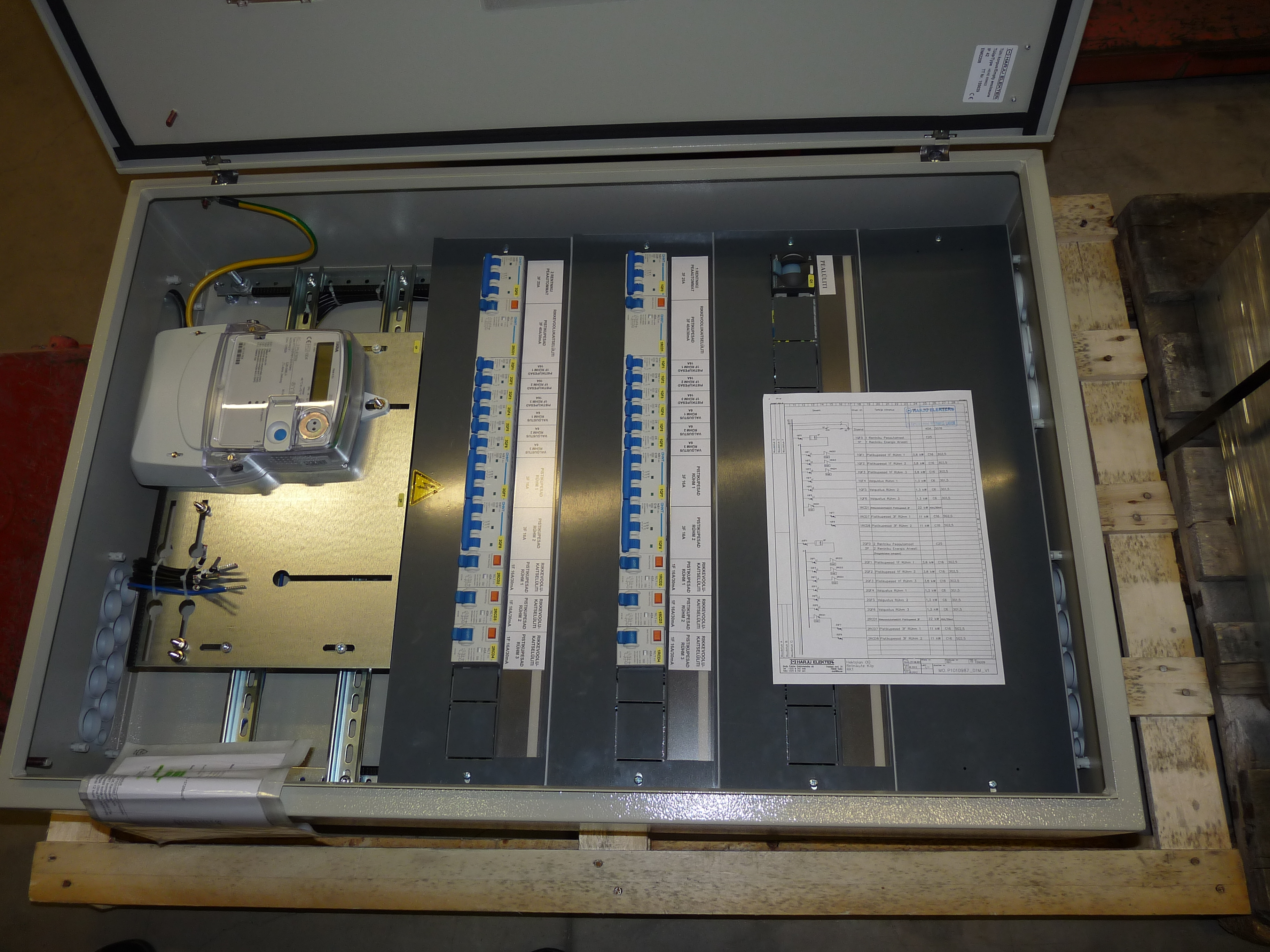 Distribution board